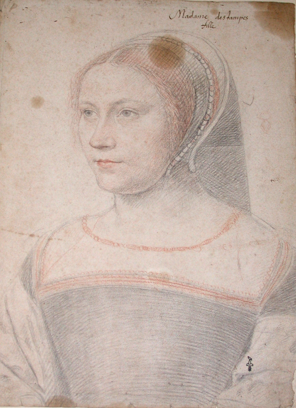 Diane de Poitiers (as Duchess of Étampes following Anne de Pisseleu d'Heilly's fall from grace and banishment from court as a result of Francis I's death), 1525. Jean Clouet Диана Пуатье в 1525 году. Рисунок Жана Клуэ.